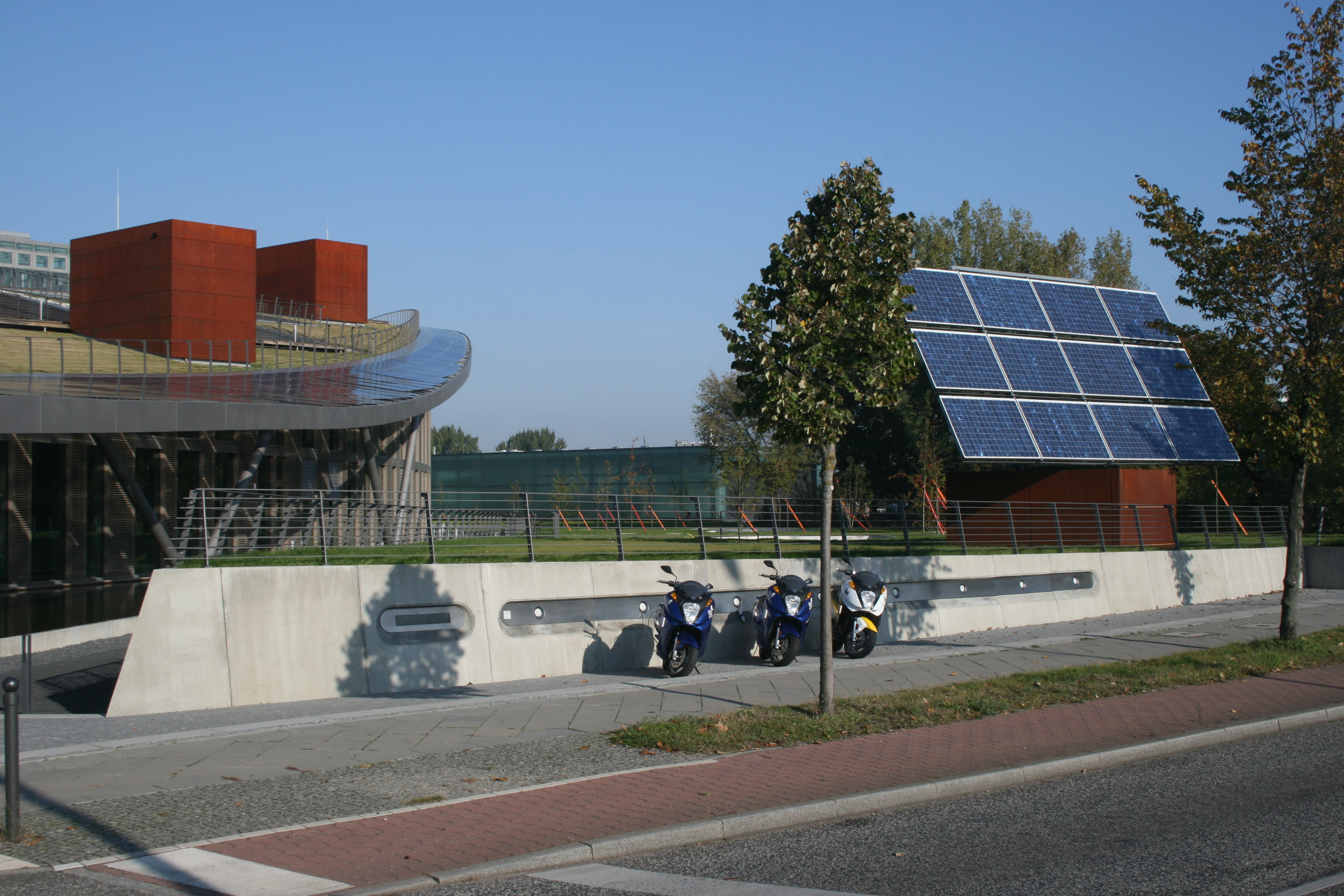 Younicos Solar Filling Station at Solon SE Headquater Berlin